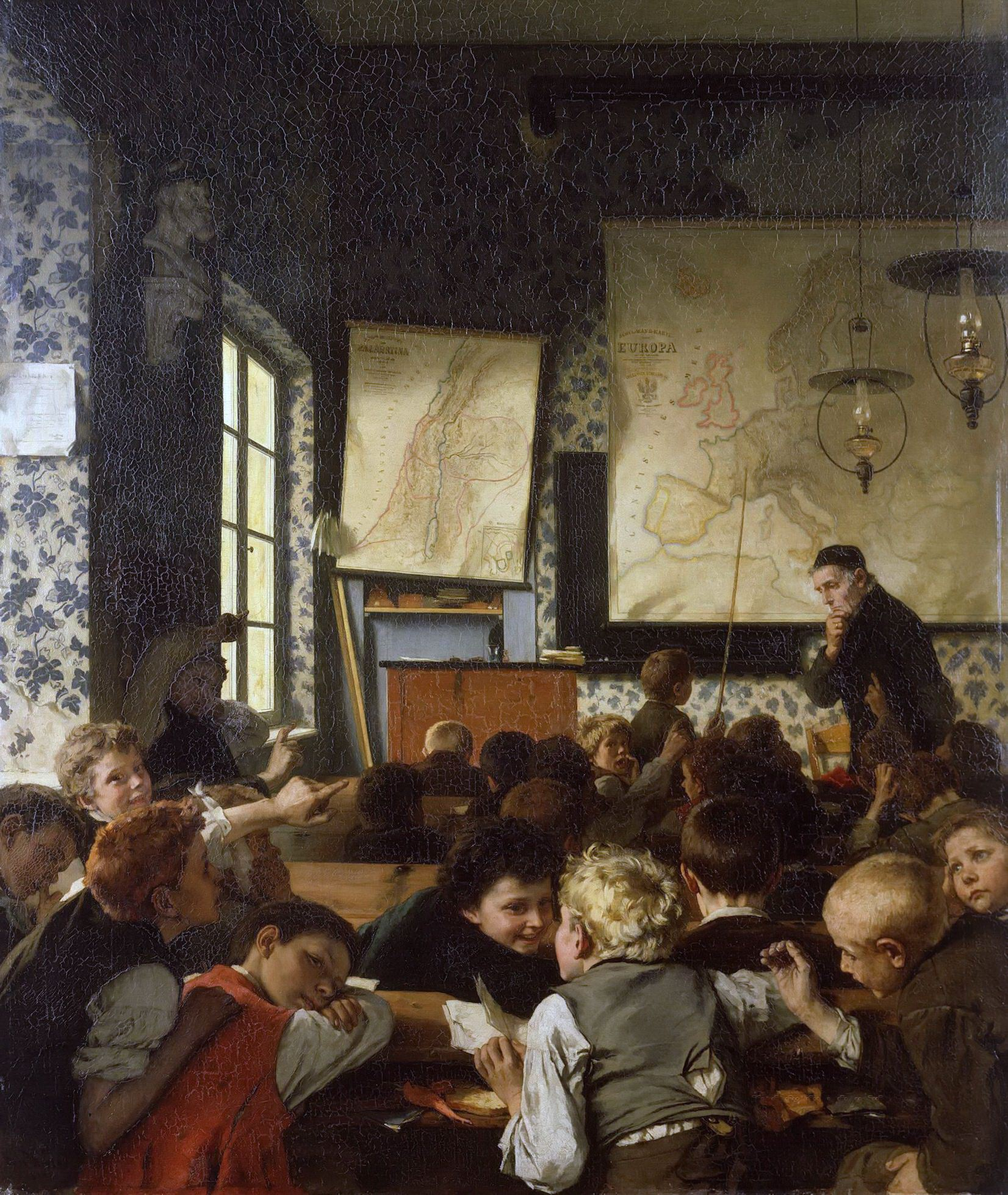 Young Germany in School, oil painting in the Nationalgalerie, Berlin.